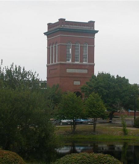 Tower of the old Cordage Fatory in North Plymouth, Massachusetts